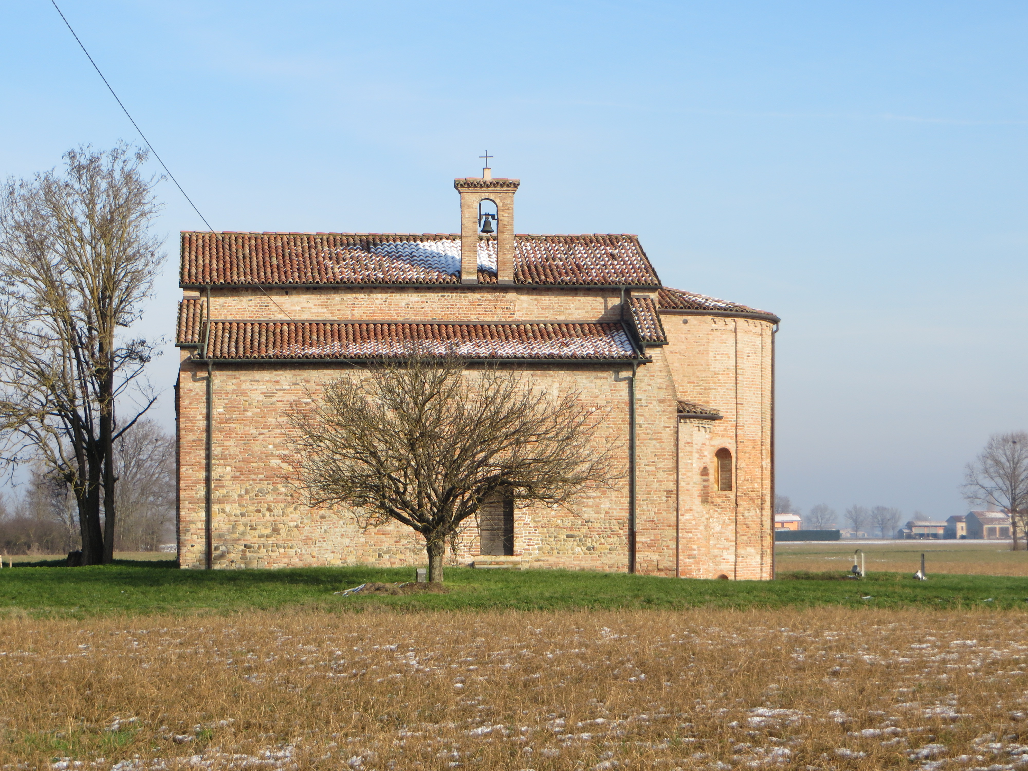 San Genesio church